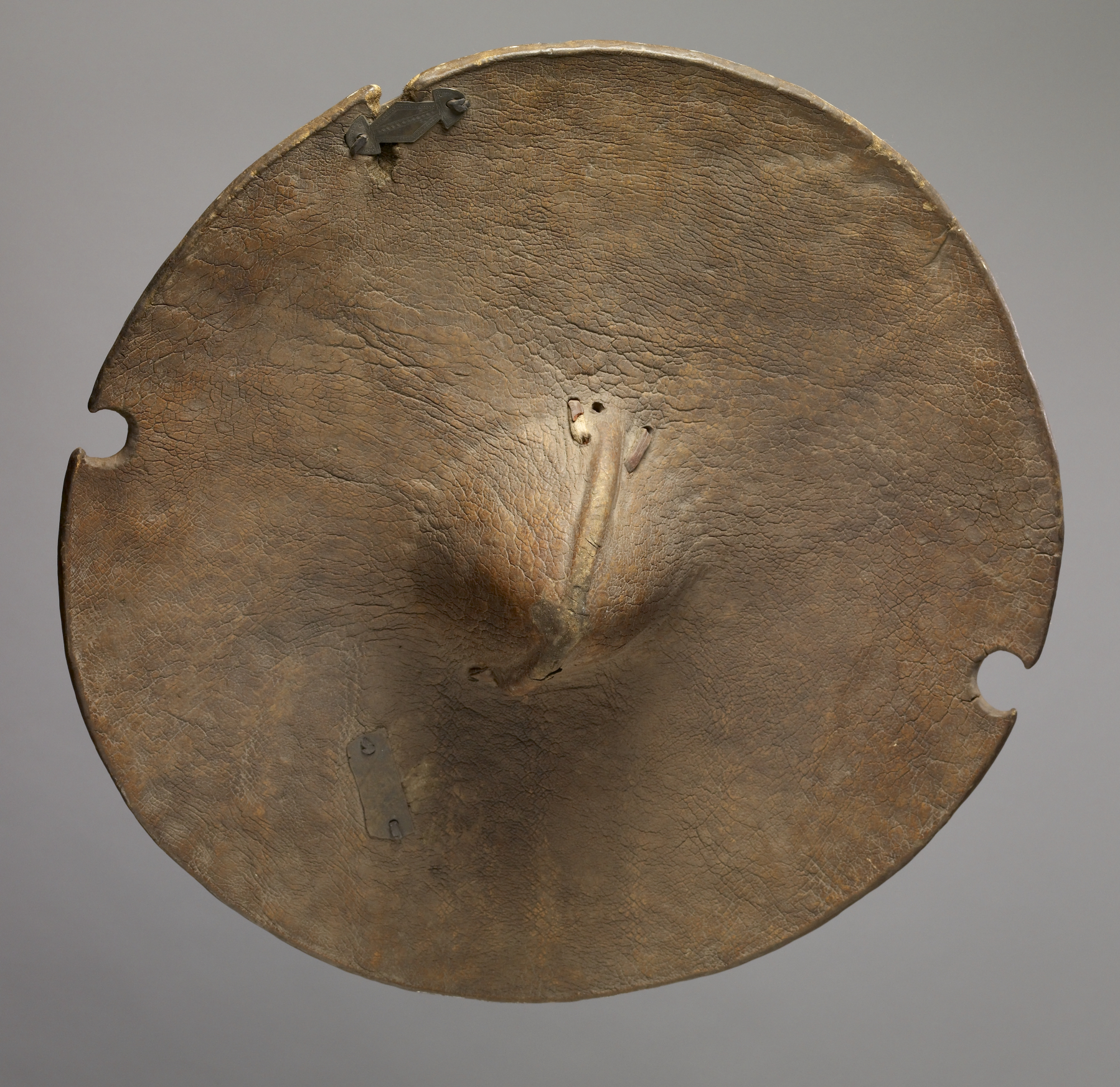 The Beja are nomadic people of eastern Sudan who were first documented by the ancient Egyptians. This is a late example of a traditional Beja round shield, typically made of rhinoceros or hippopotamus hide.